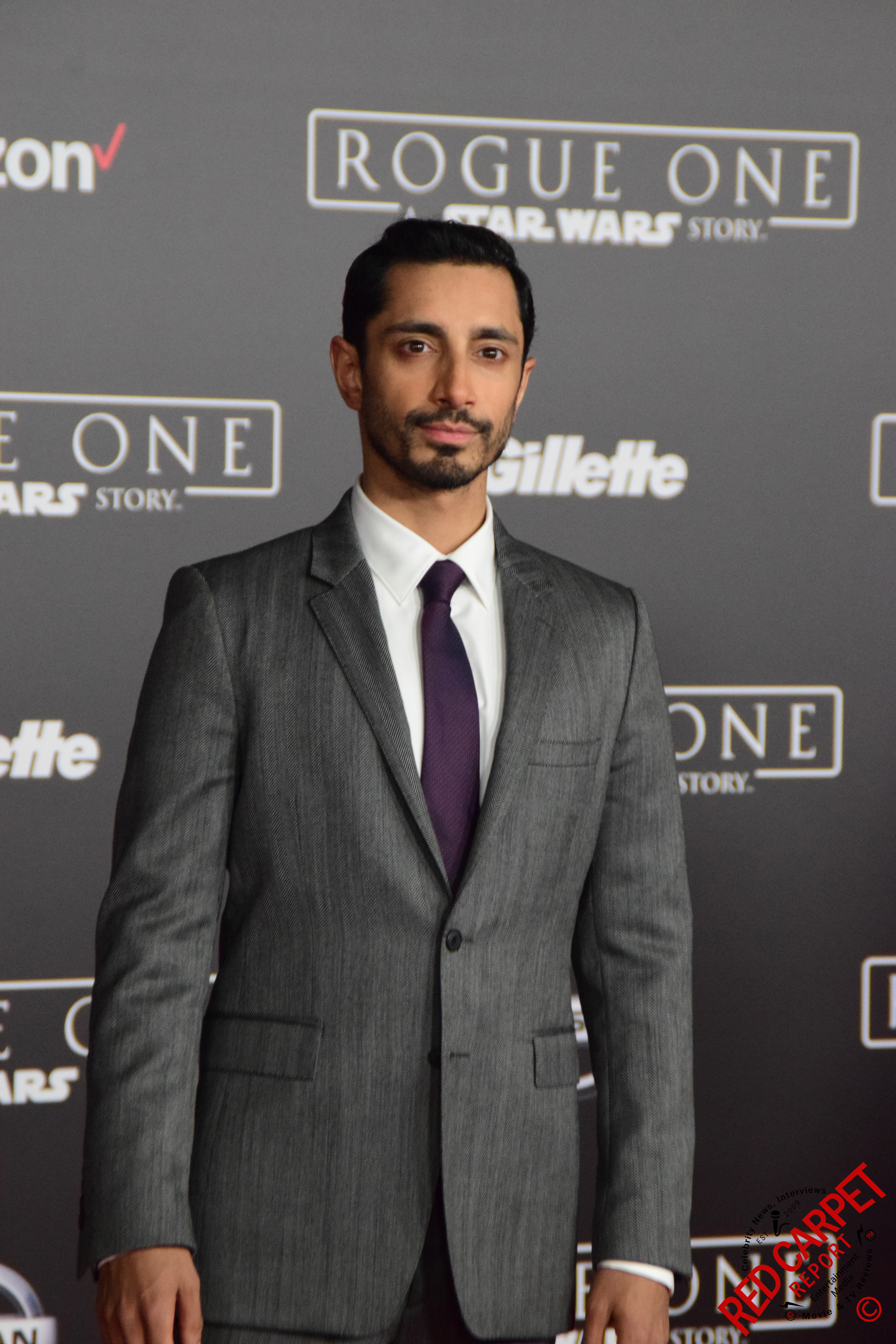 Riz Ahmed at the Rogue One: A Star Wars Story World Premeire Red Carpet